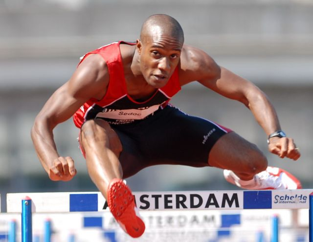 Gregory Sedoc during Dutch Championship 2007 in Amsterdam